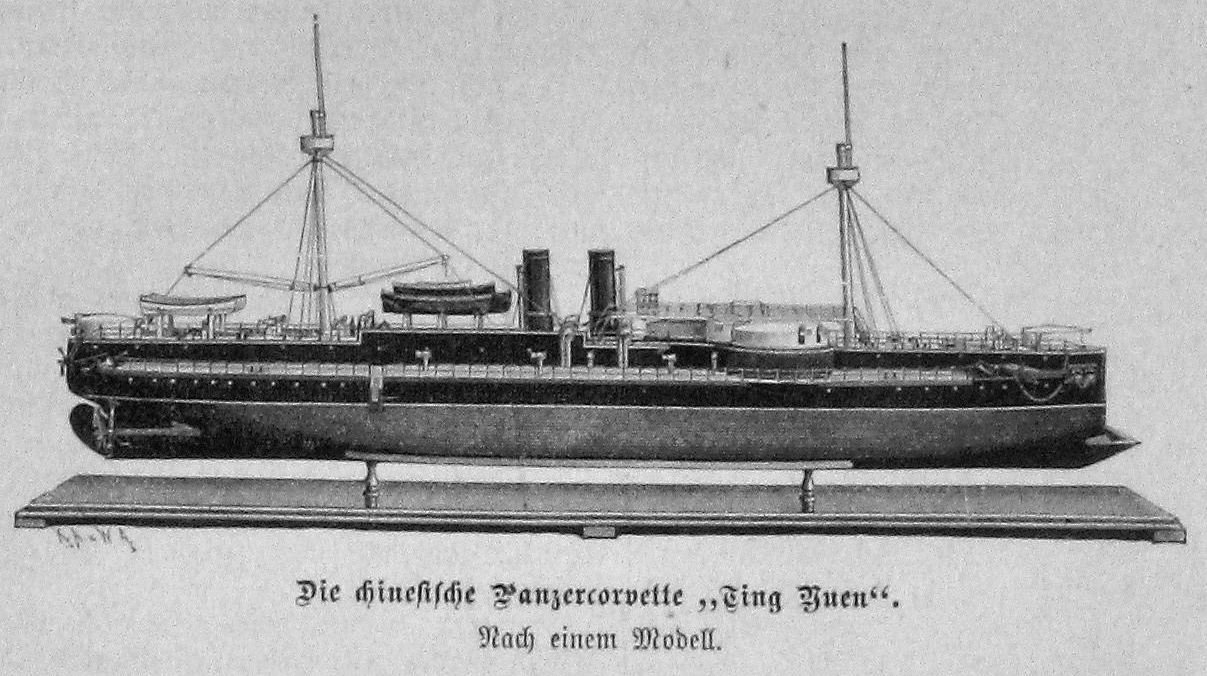 no caption